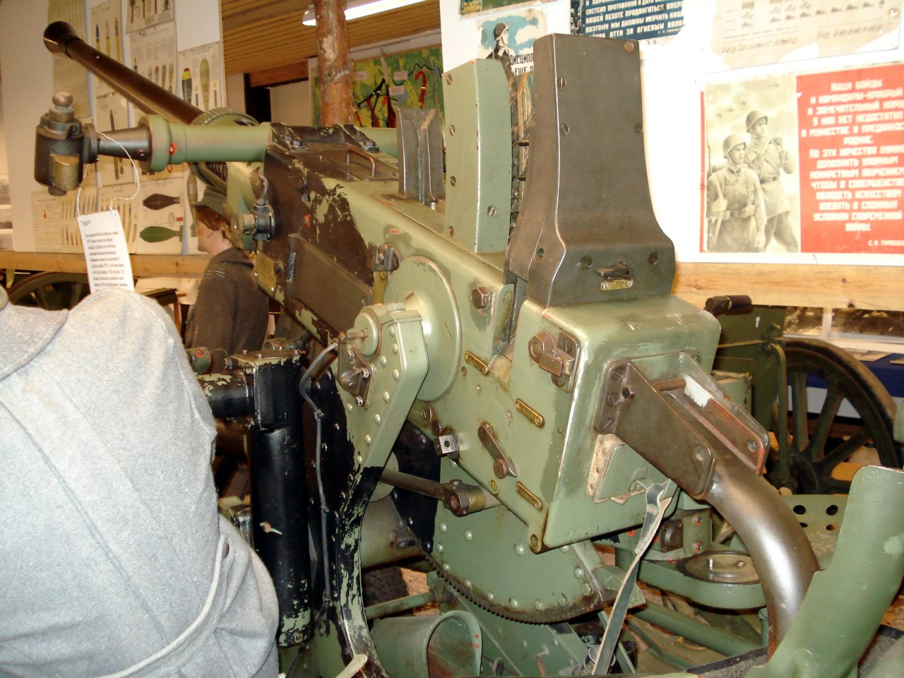 Bofors 40 mm anti-aircraft gun, displayed in Lappohja Front Museum in Finland. Source: Photo by me, User:Balcer. Date: 15 July 2006